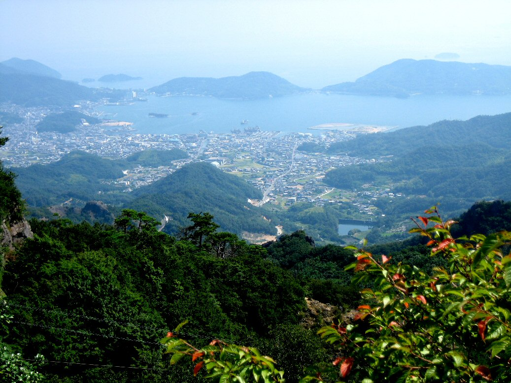 Sho-dosima_town